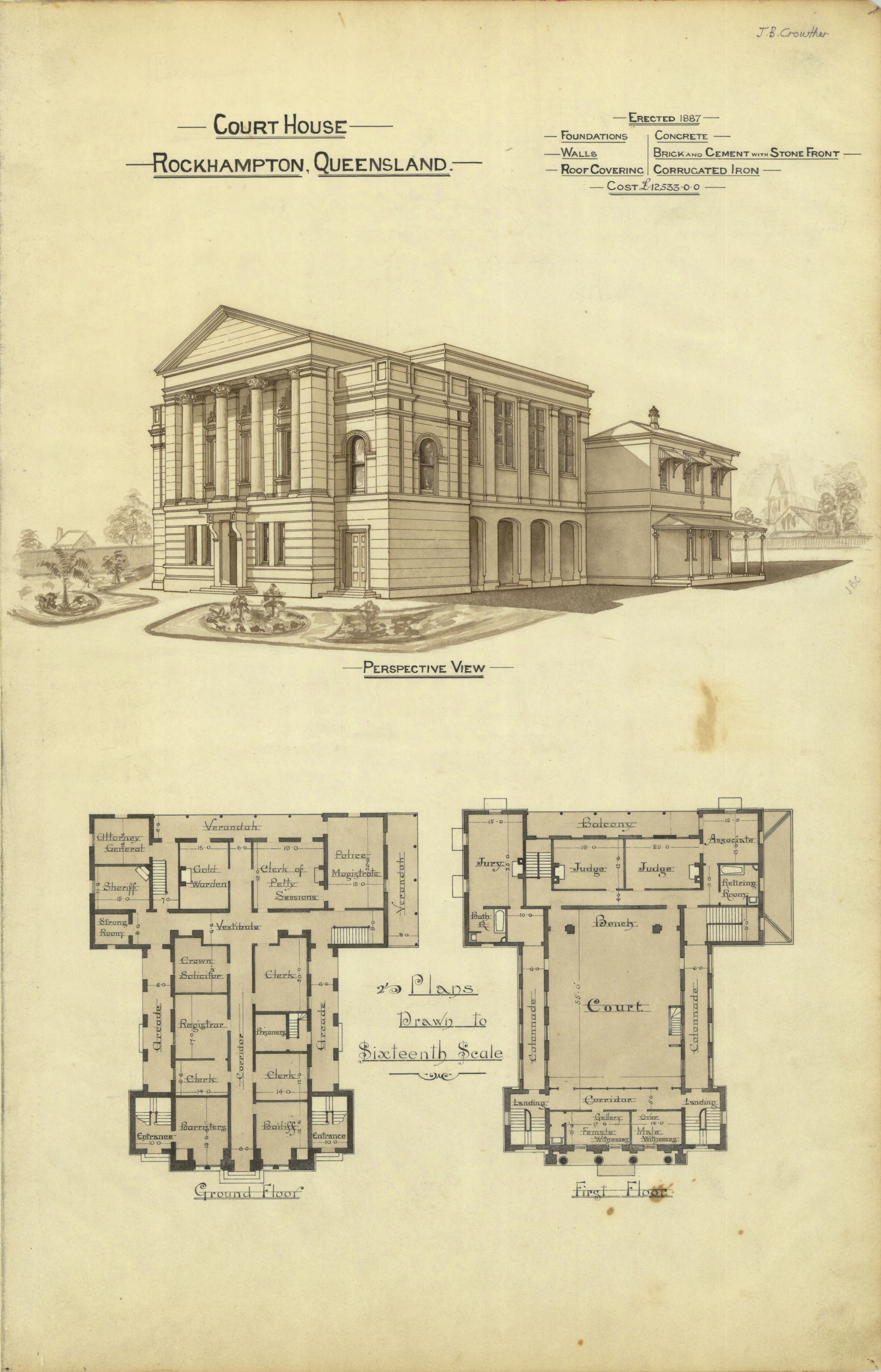 Rockhampton's Court House, circa 1888